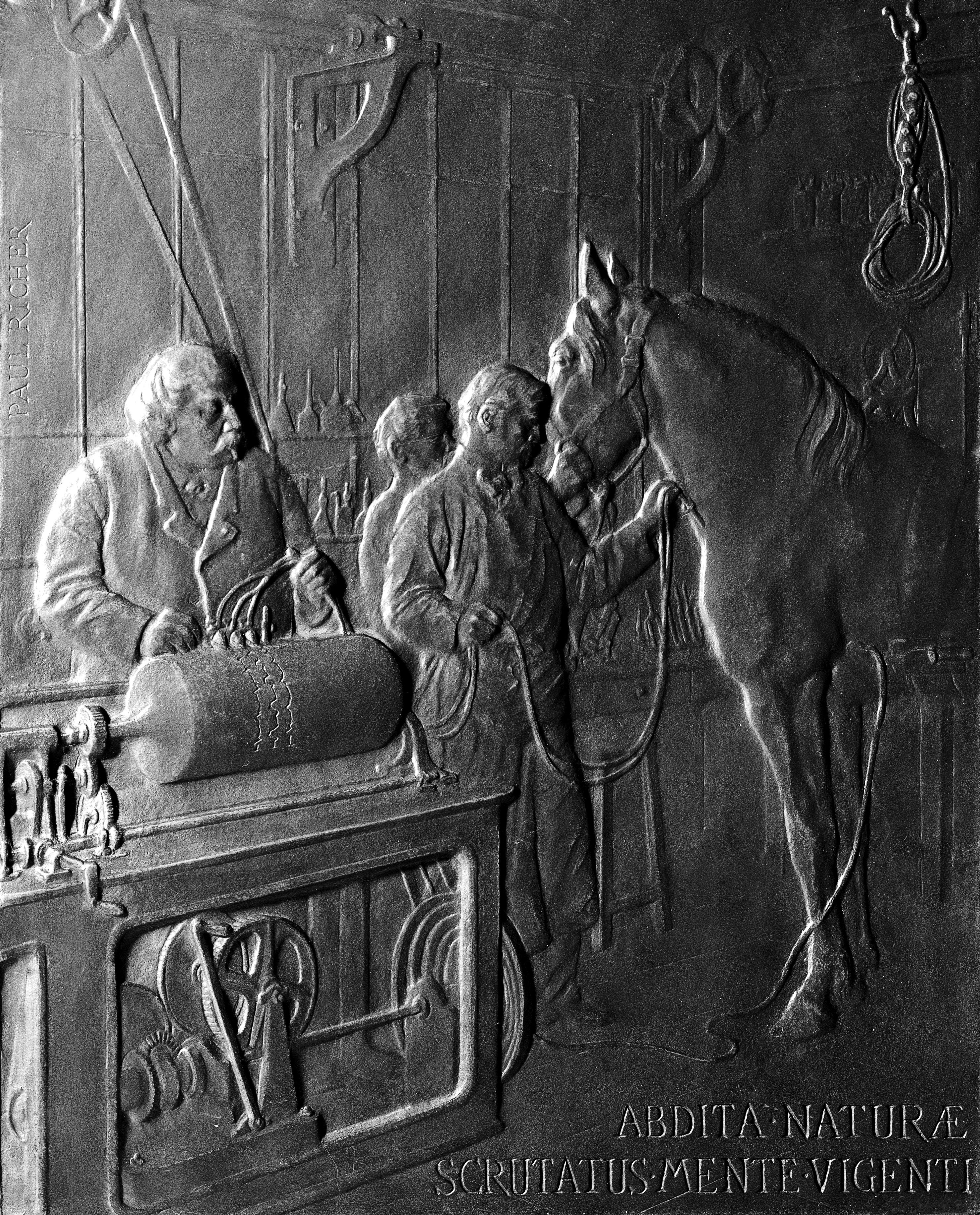 Showing Chauveau using the cardiograph in experiments to determine the sequence of events in the cardiac cycle. Wellcome Images Keywords: Paul Richer; Physiology; J.B. August Chauveau